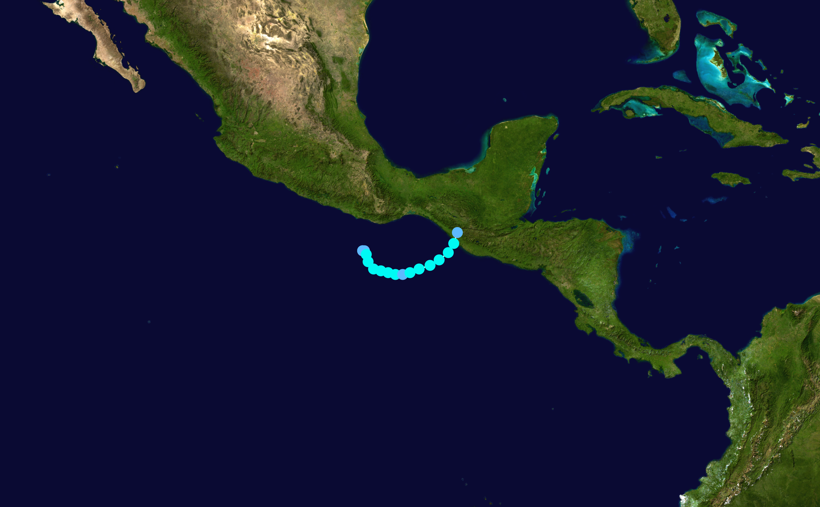 Track map of Tropical Storm Barbara of the 2007 Pacific hurricane season. The points show the location of the storm at 6-hour intervals. The colour represents the storm's maximum sustained wind speeds as classified in the Saffir–Simpson scale (see below), and the shape of the data points represent the nature of the storm, according to the legend below. Saffir–Simpson scale Tropical depression≤38 mph≤62 km/h Category 3111–129 mph178–208 km/h Tropical storm39–73 mph63–118 km/h Category 4130–156 mph209–251 km/h Category 174–95 mph119–153 km/h Category 5≥157 mph≥252 km/h Category 296–110 mph154–177 km/h Unknown Storm type Tropical cyclone Subtropical cyclone Extratropical cyclone / Remnant low / Tropical disturbance / Monsoon depression